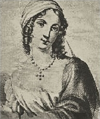 Alleged portrait of Italian poet Isabella Morra (c. 1520-1546), from the cover of "Isabella Morra: vicenda di sangue e barbarie" by Francesca Santucci, Lucaniart, 2013